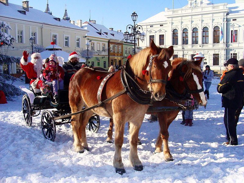 Santa Claus in Sanok, Poland